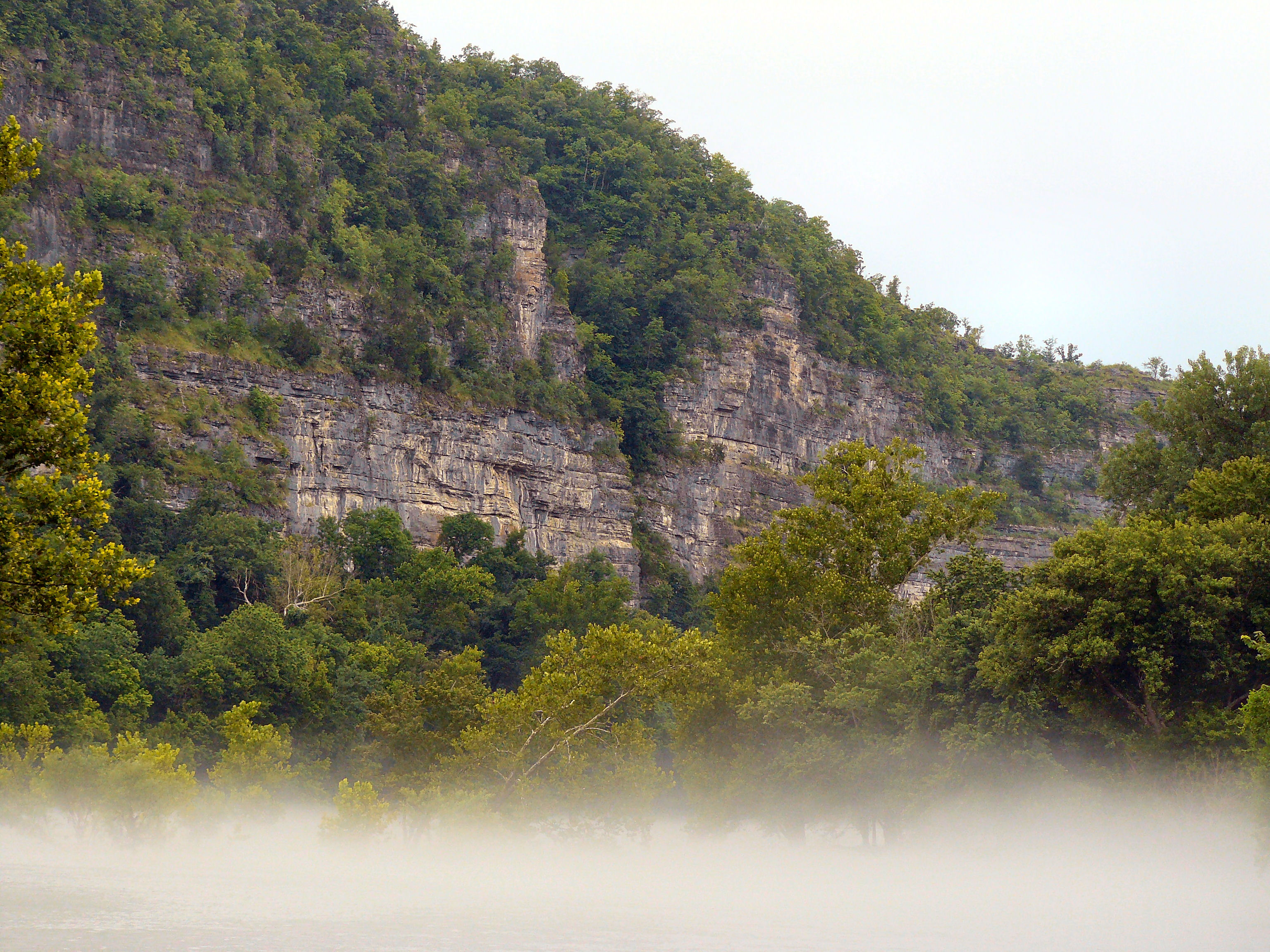 Riley' Station on the Buffalo National River near Mountain Home, AR